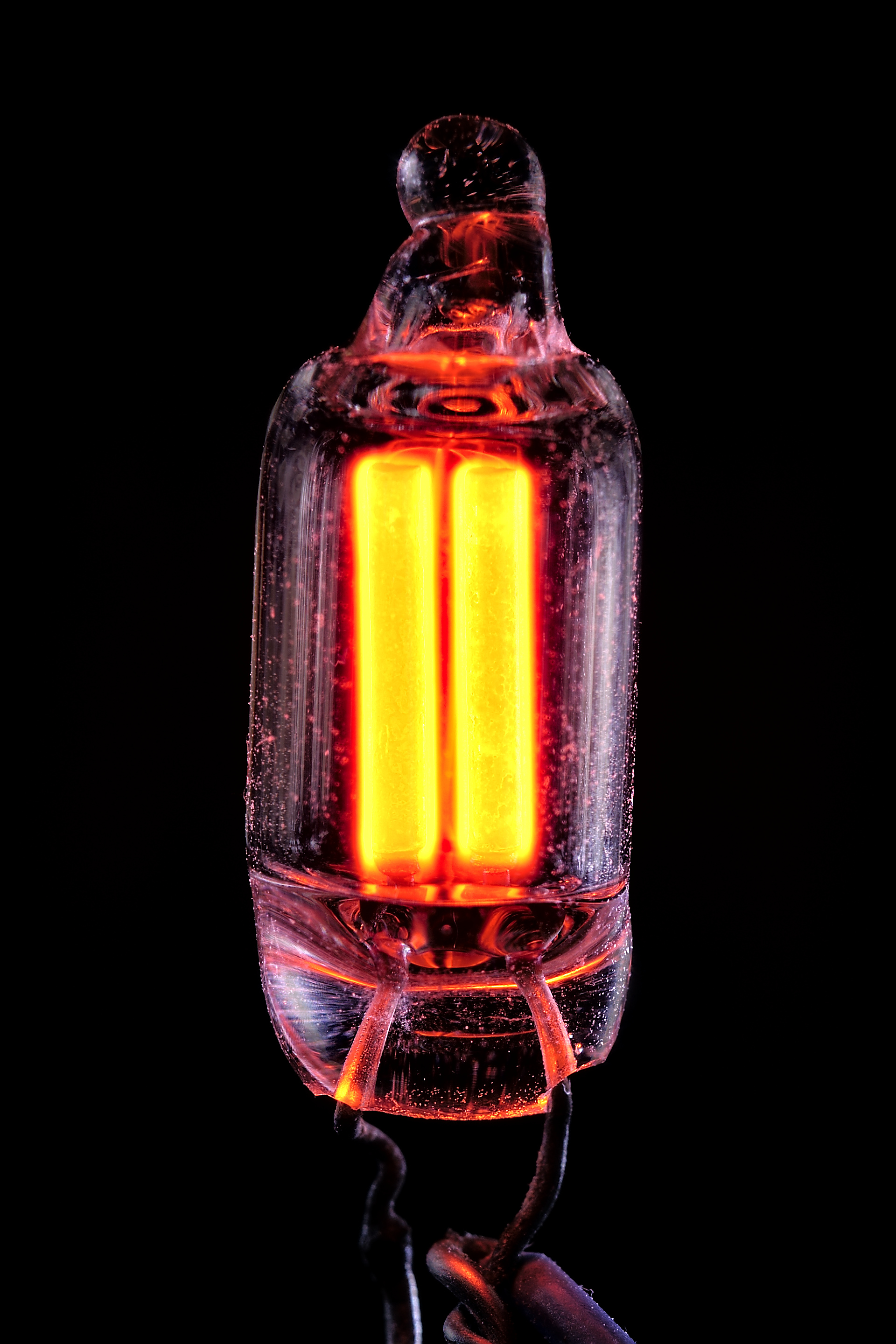 Close-up view of an NE-2 (5mm diameter) type neon lamp. Both electrodes appear to glow simultaneously due to being powered by 60Hz alternating current, with the exposure time being longer than a full current cycle.